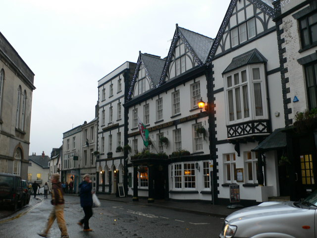 Agincourt Street, Monmouth Looking down Agincourt Street, named after the famous battle of Agincourt which was won by Monmouth-born Henry V. The hotel on the right with the flag is the King's Head.